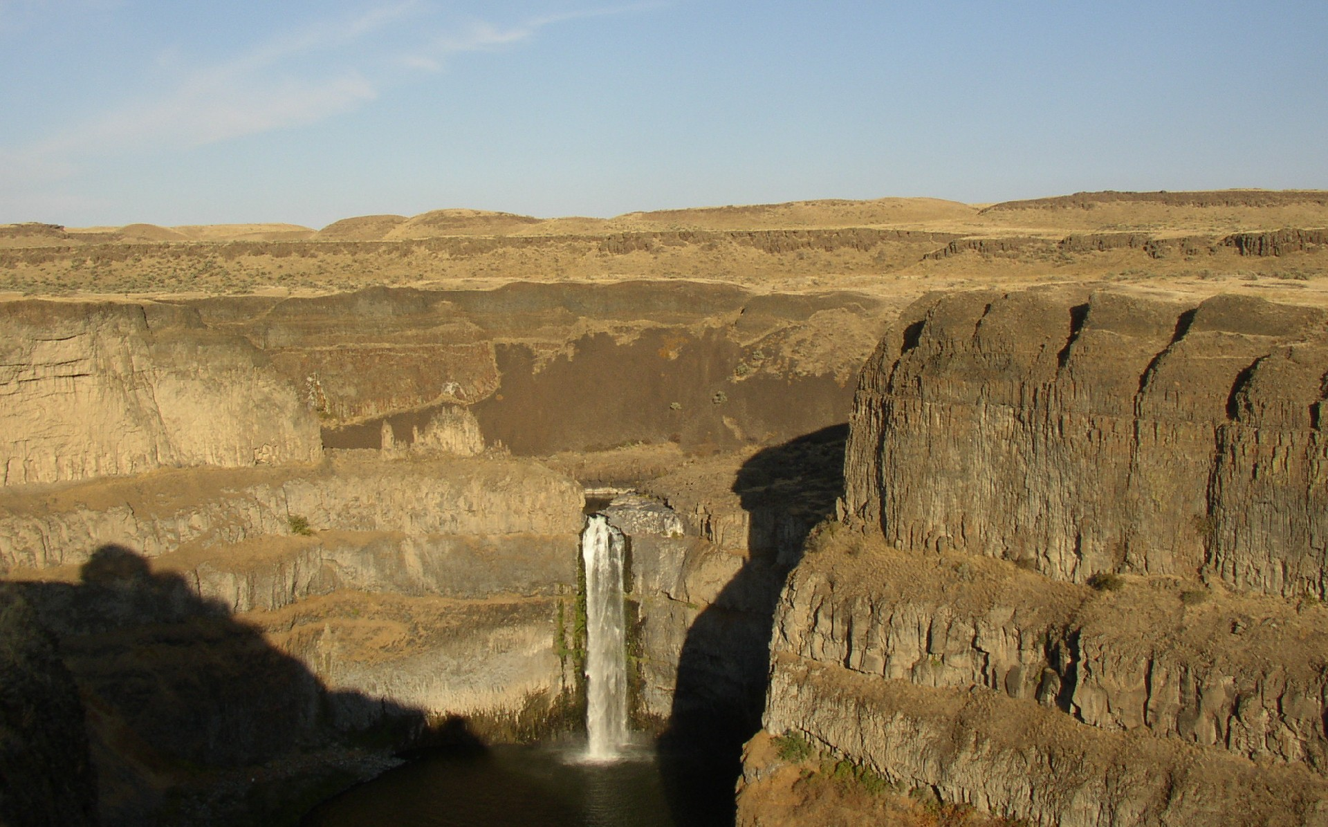 Palouse Falls on the Palouse River about 4 miles (6.4 km)upstream of the confluence with the Snake River.